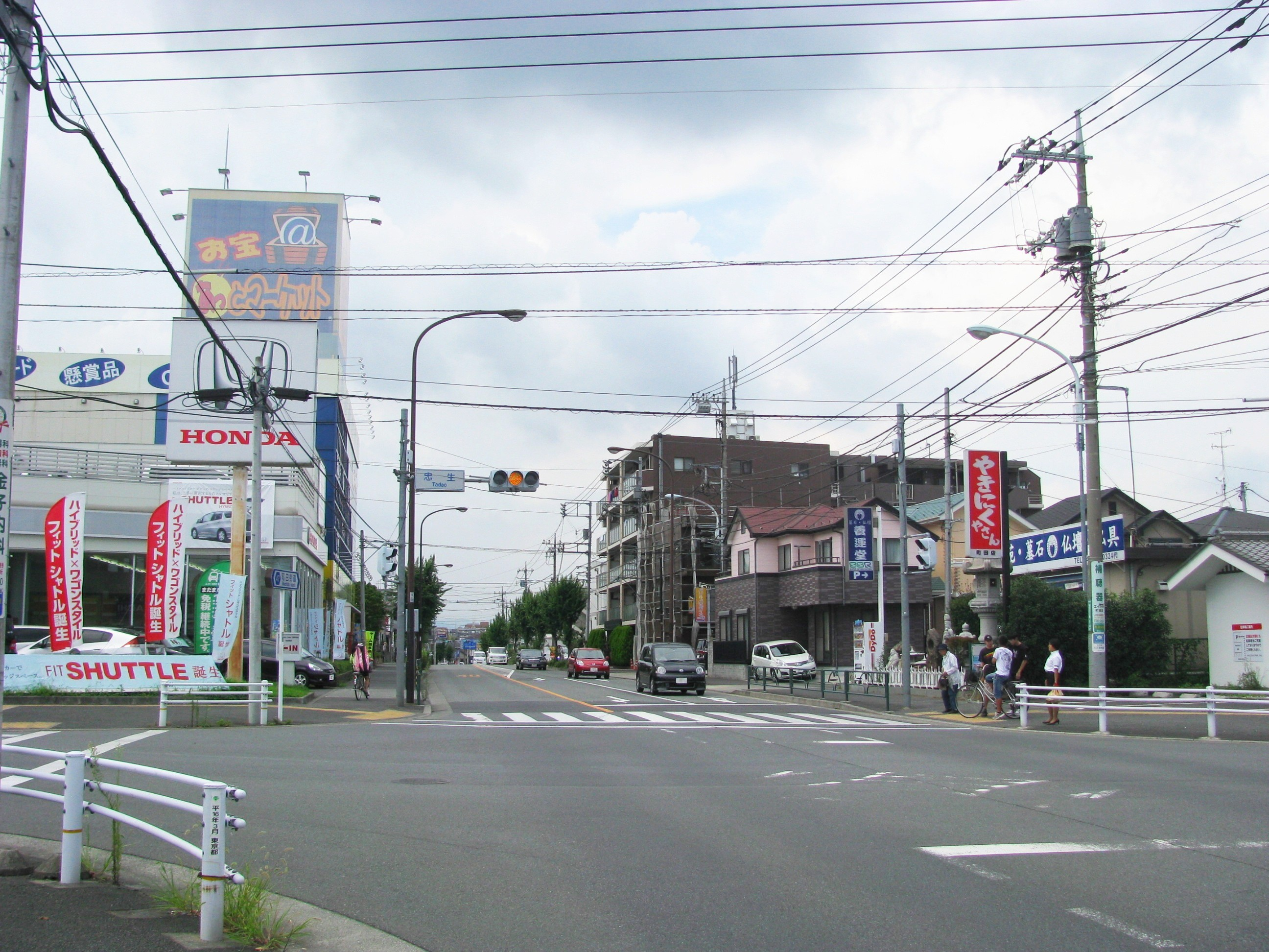 The Tokyo Prefectural Route 47. This location is Tadao in Machida, Tokyo, Japan.